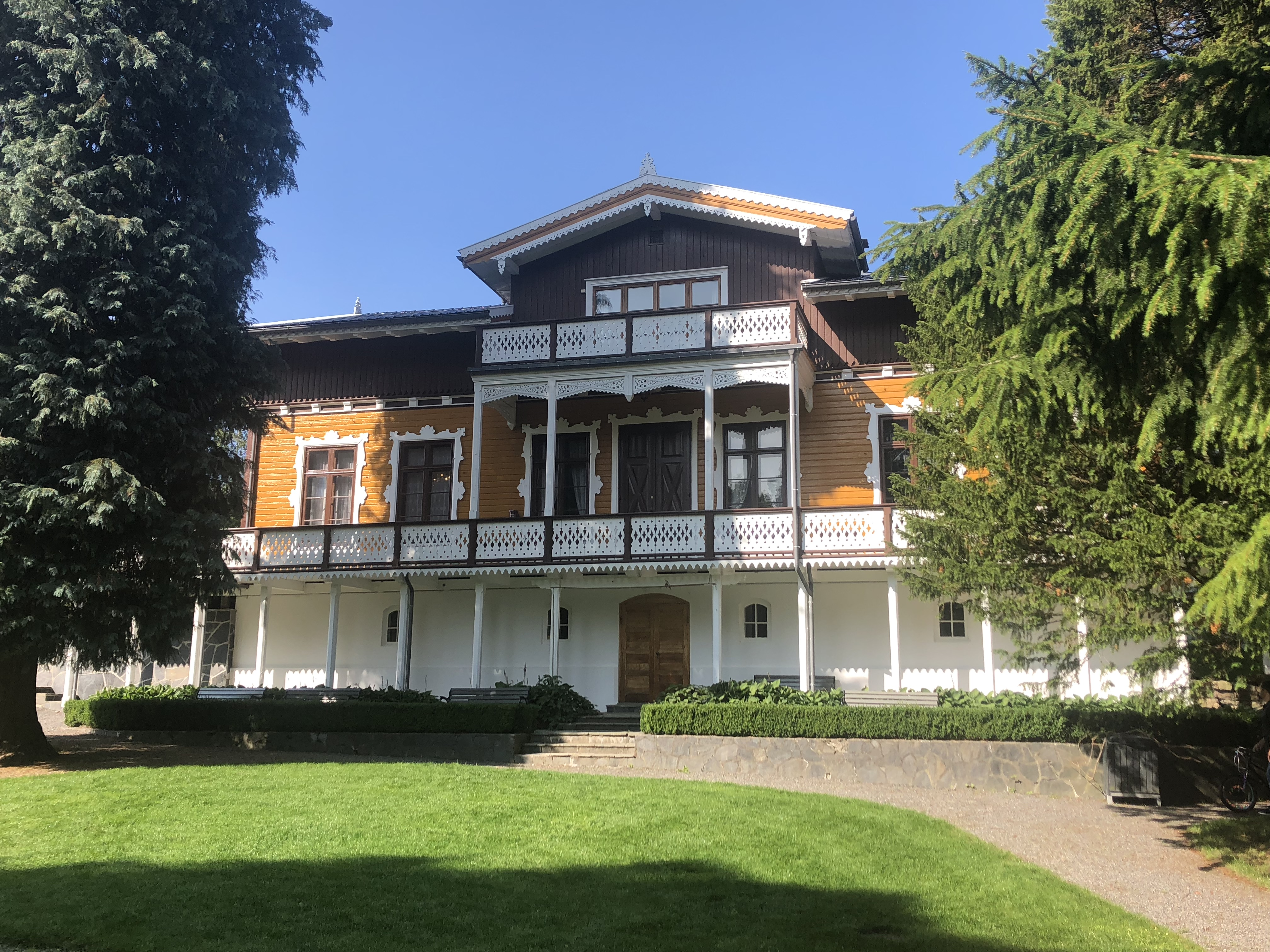 The unique 19th Century park surrounding Myren Manor (Myren Gård) outside Kristiansand, Norway.